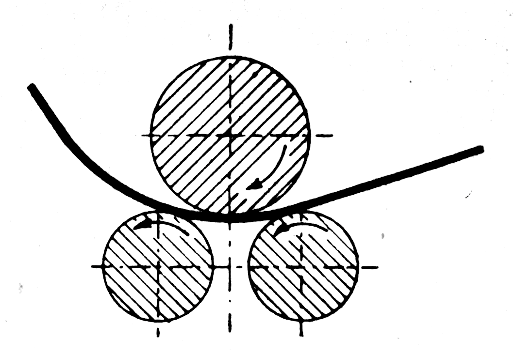 Diagram of plate-bending rolls, in cross section